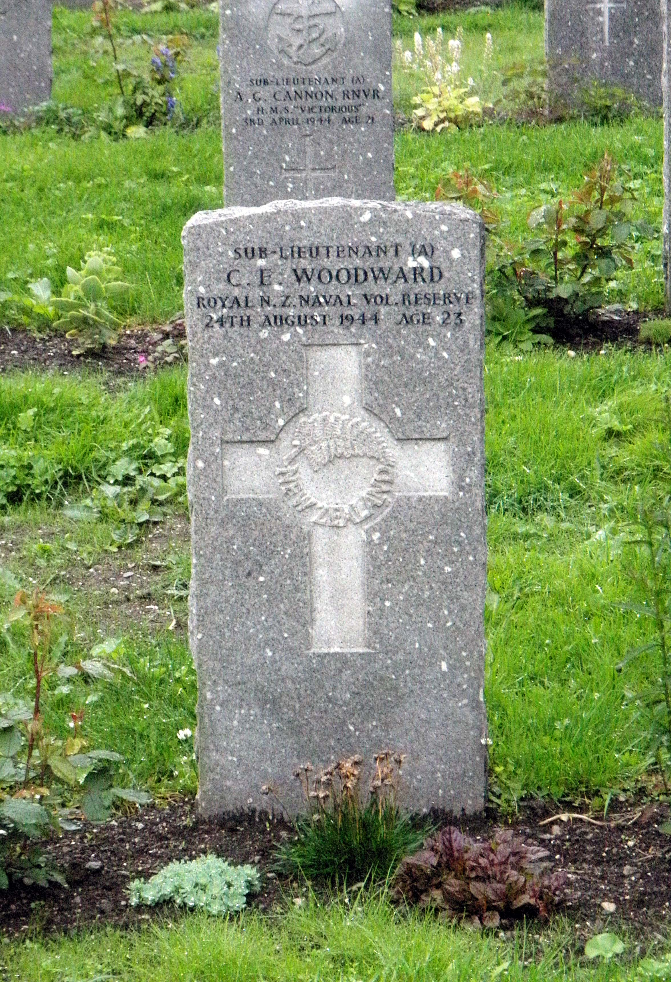 The gravestone of Sub-Lieutenant (A) Clive Eustace Woodward at the Commonwealth War Graves section in the main cemetery in Tromsø, Troms, Norway.